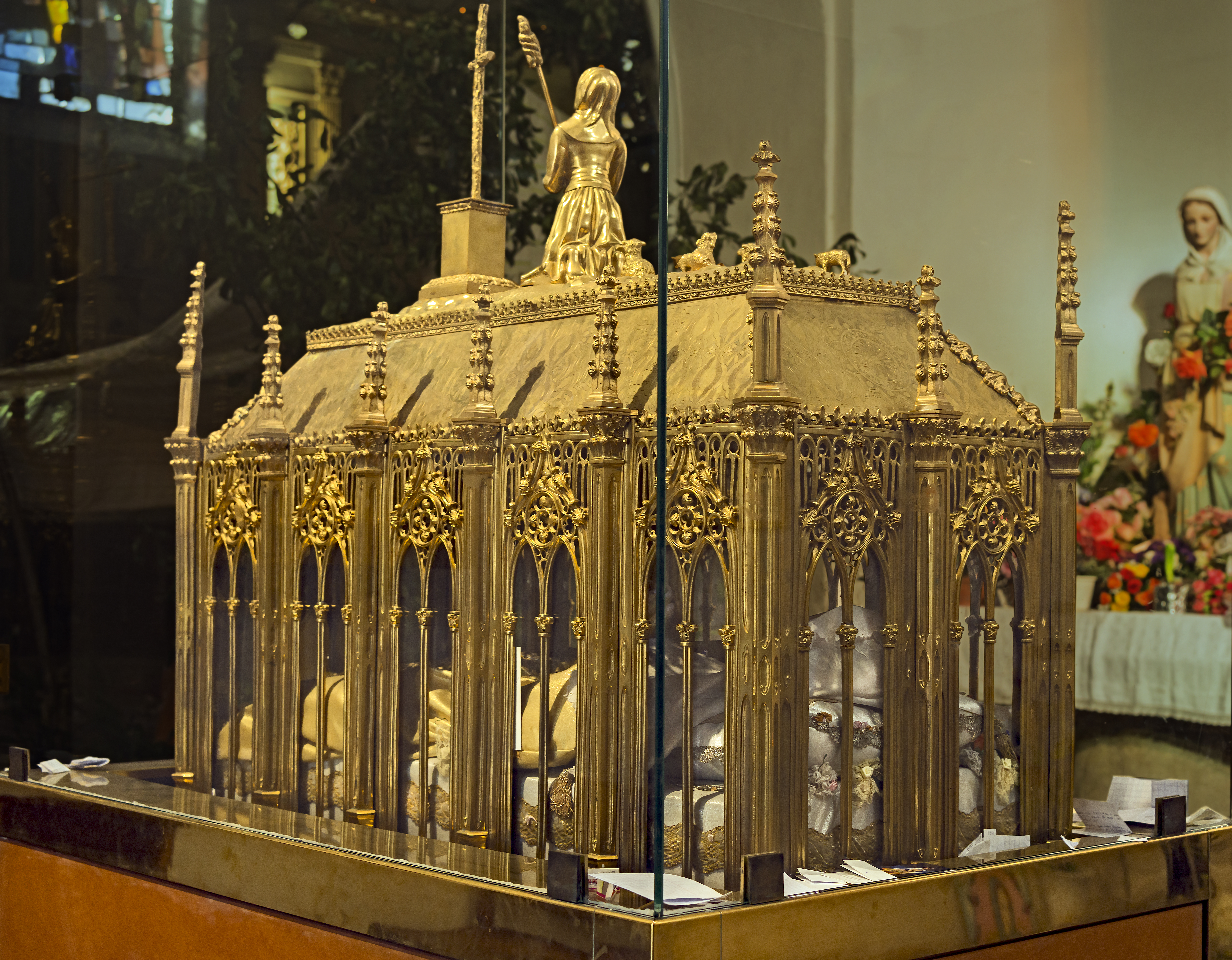 Church of Mary Magdalene of Pibrac, Haute-Garonne France – The reliquary of Sainte-Germaine; work of Mr Favier, goldsmith in Lyon 1854. Material: gilded brass and crystal Size: 1.30m long, 0.50m wide and 1 m high.